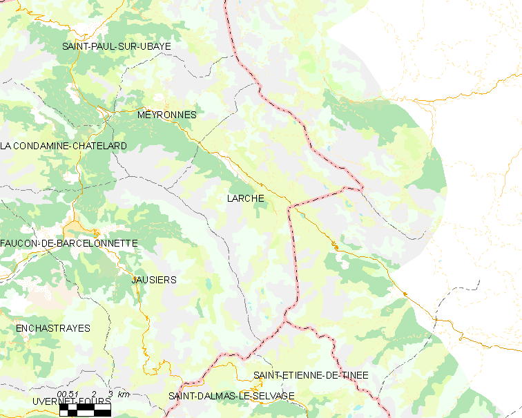 Map commune FR insee code 04100.png Légende